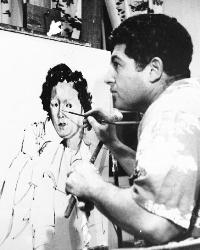 Photograph of Robert H. Meltzer painting a portrait.